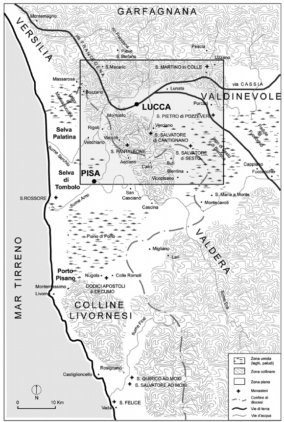 Map of western Tuscany (1000-1100)